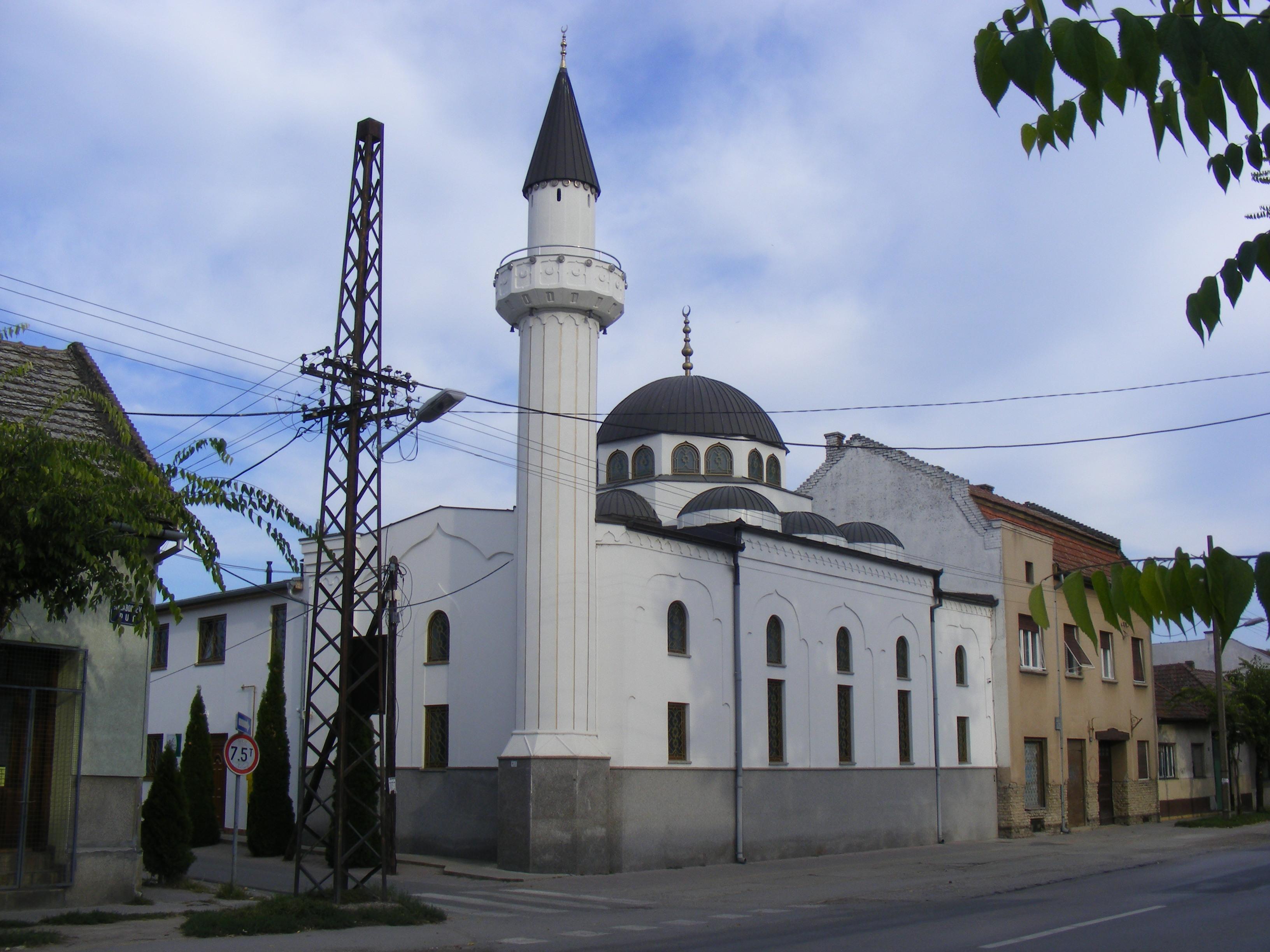 Mosque Subotica Serbia from the outside.